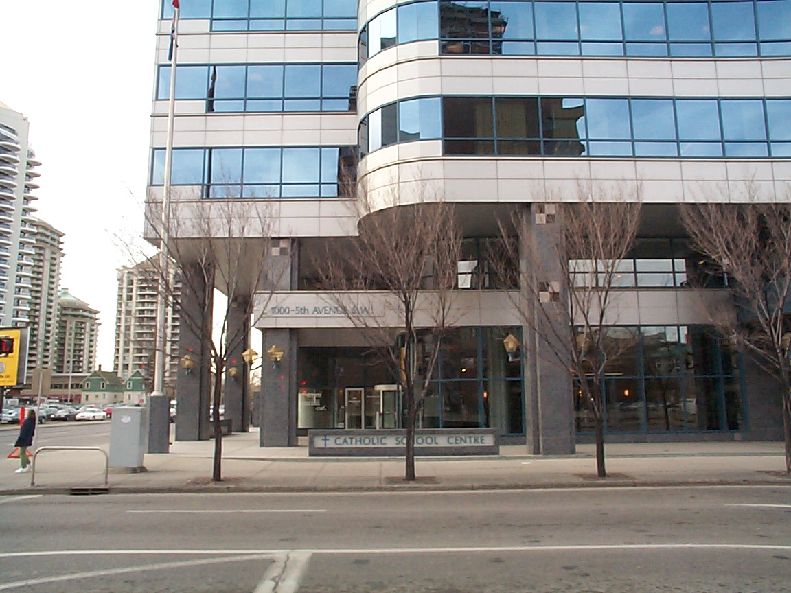 The Catholic School Centre is the head offices of the Calgary Catholic School District. It is located at 1000 - 5 Avenue S.W., Calgary, Alberta, Canada, T2P 4T9.